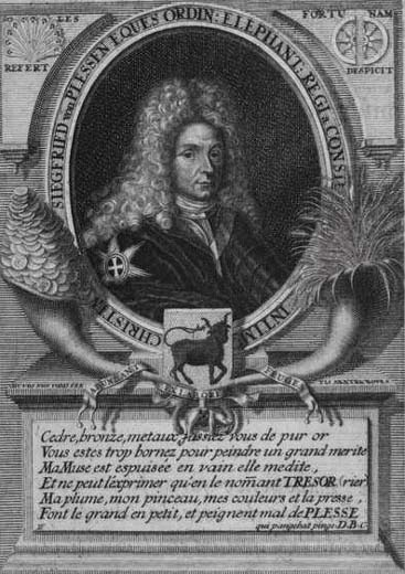 Portrait engraving of the German-born Danish civil servant and nobleman, minister of finance Christian Siegfried von Plessen (1646-1723)